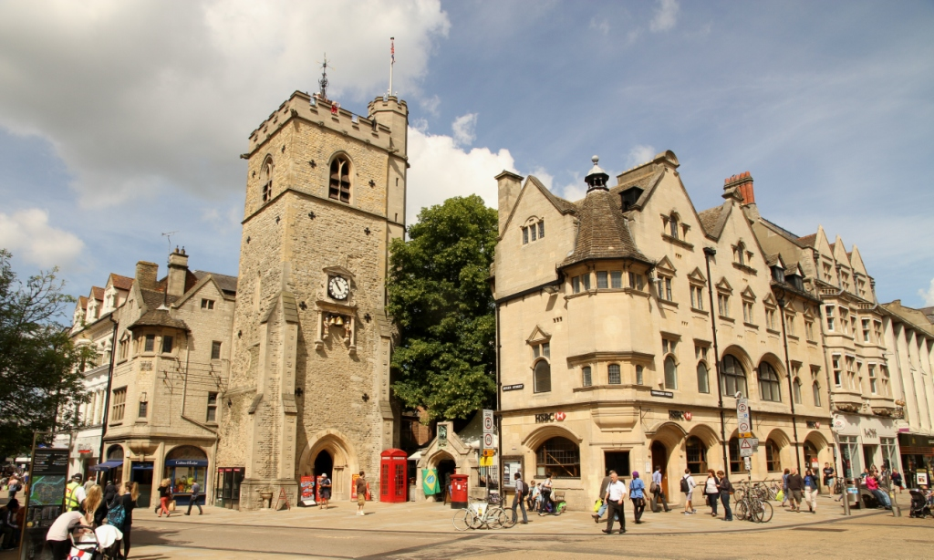 Carfax, Oxford: St Martin's tower (left) and 62–65 Cornmarket Street (right)